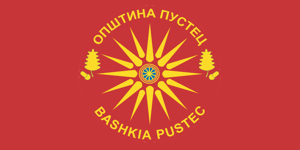 Municipal flag of Liqenas (Pustec)/Albania